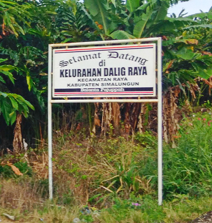 Welcome gate to Dalig Raya, Raya, Simalungun